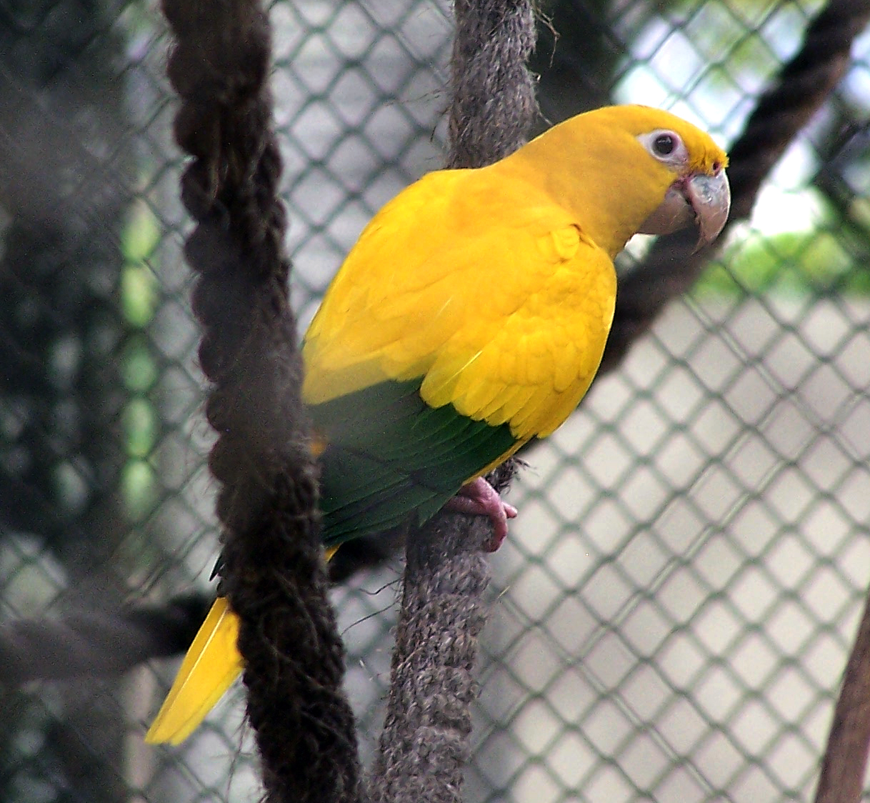 Golden parakeet (Guaruba guarouba) in Rio de Janeiro Zoo